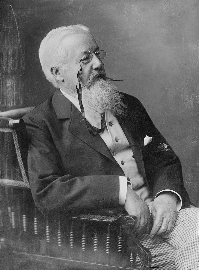 Albert Traeger (b. 1830, d. 1912), liberal leader (LOC) Bain News Service,, publisher. Trager--liberal leader [photography taken between 1900 and Traeger's death in March, 1912] 1 negative : glass ; 5 x 7 in. or smaller. Notes: Title from unverified data provided by the Bain News Service on the negatives or caption cards. Forms part of: George Grantham Bain Collection (Library of Congress). Format: Glass negatives. Repository: Library of Congress, Prints and Photographs Division, Washington, D.C. 20540 USA, General information about the Bain Collection is available at Persistent URL: Call Number: LC-B2- 3066-10